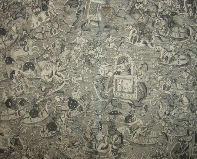 The war of succession: "Representation et description du soulevement des IV. Princes du Mogol contre L'Empereur leur pere et du Combat dans lequel Aureng-Zeb demeura vainqueur de ses trois Freres & se fit ensuite Proclamer Empereur," an engraving probably by Chatelain, c.1720